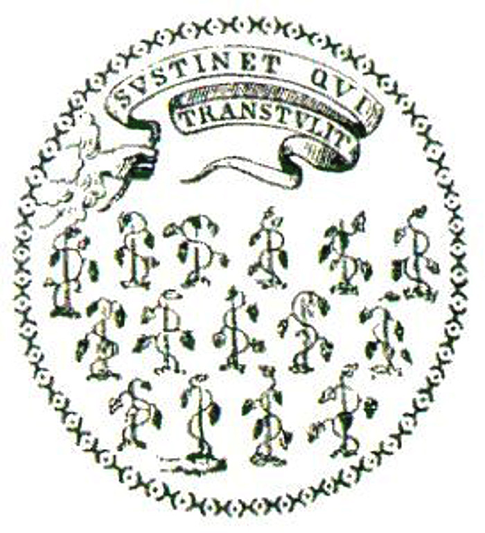 This is the original colonial era seal for Connecticut (1639-1687).